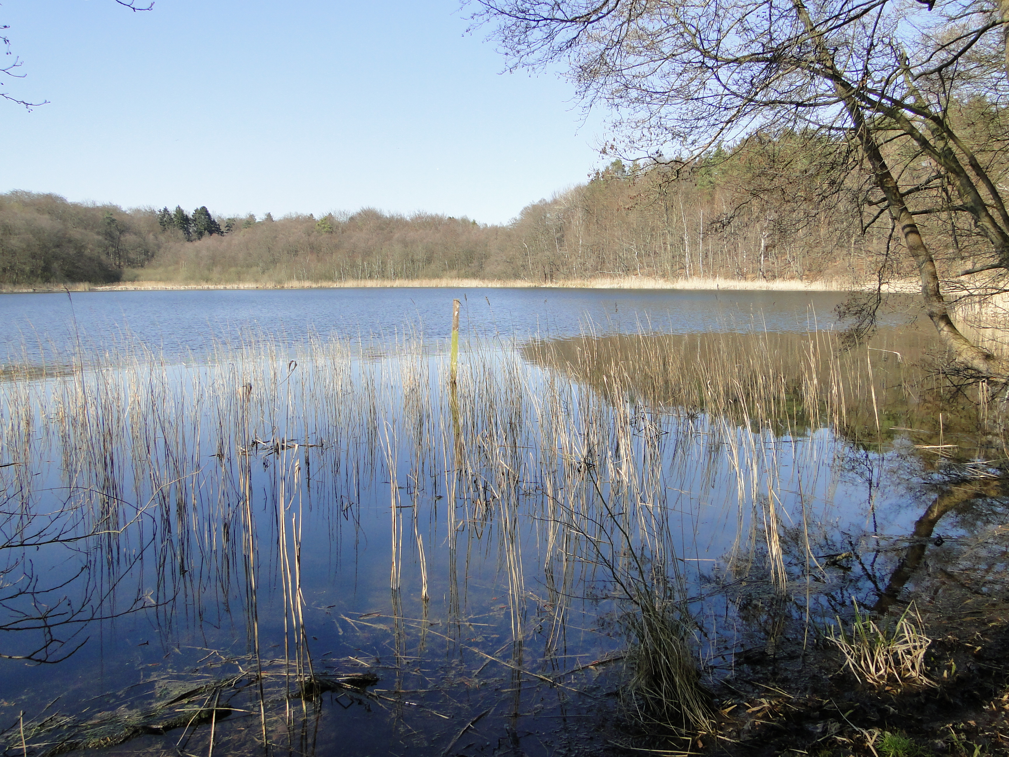 Lake Borgsee near Neu Schwinz, district Ludwigslust-Parchim, Mecklenburg-Vorpommern, Germany